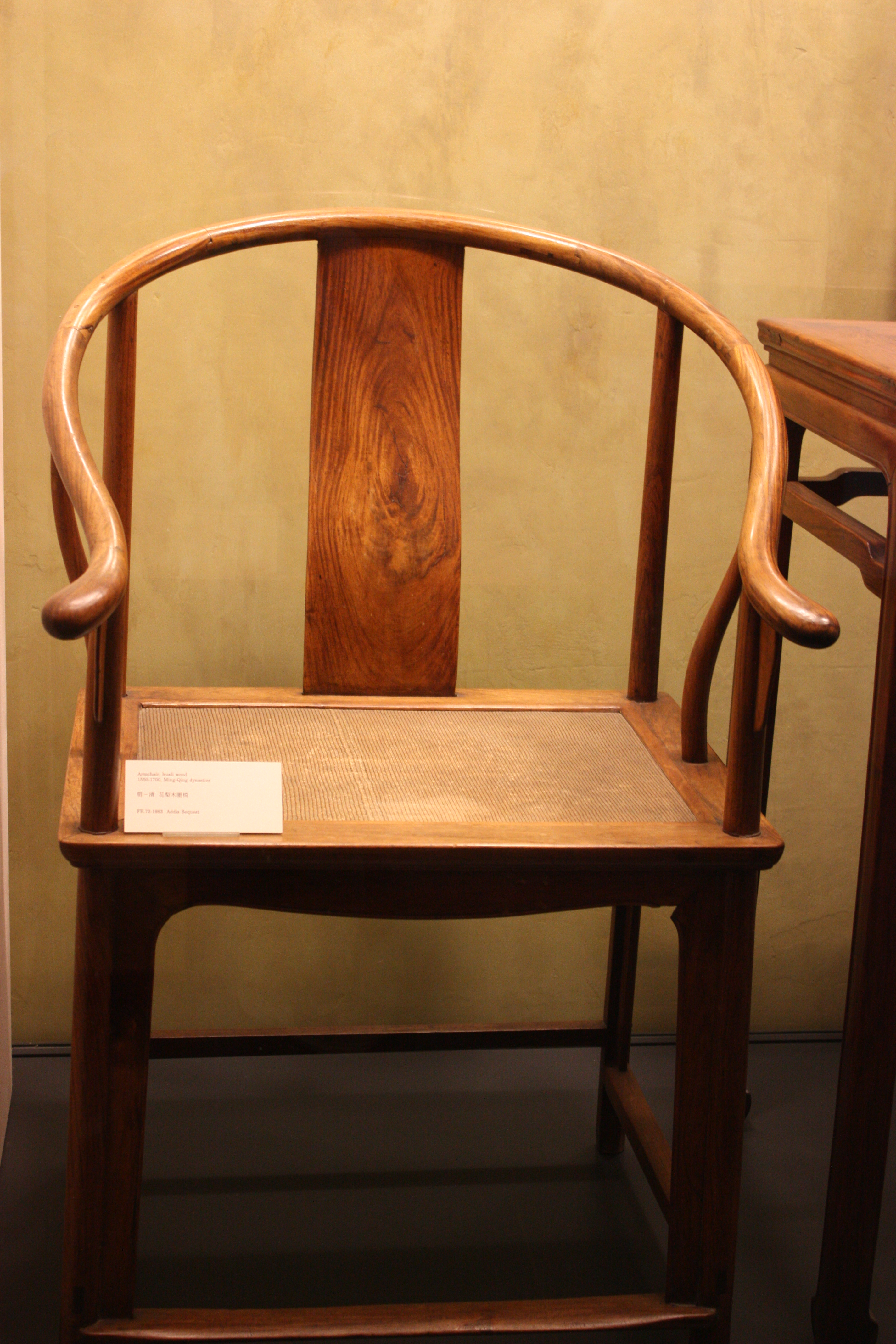 Chair China About 1550-1650 Huali wood Museum no. FE.27-1983 Wikipedia Loves Art at the Victoria and Albert Museum This photo of item # [1] at the Victoria and Albert Museum was contributed under the team name "va_va_val" as part of the Wikipedia Loves Art project in February 2009. Victoria and Albert Museum The original photograph on Flickr was taken by Val_McG—please add a comment to the original Flickr page whenever a use has been made on Wikipedia or another project. Project galleries on Flickr: this institution, this team